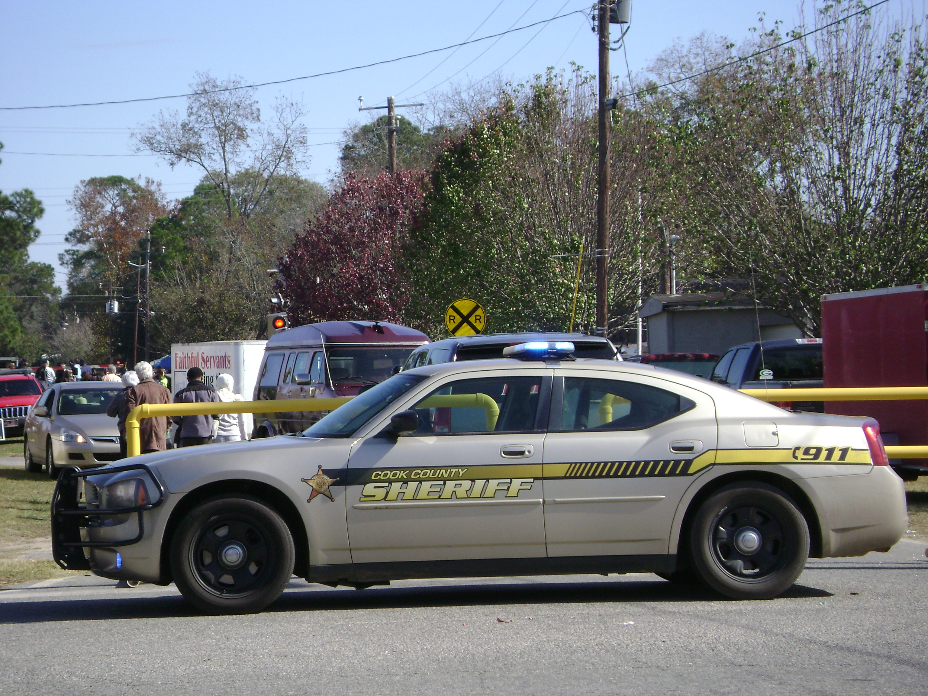 Cook County Sheriff car